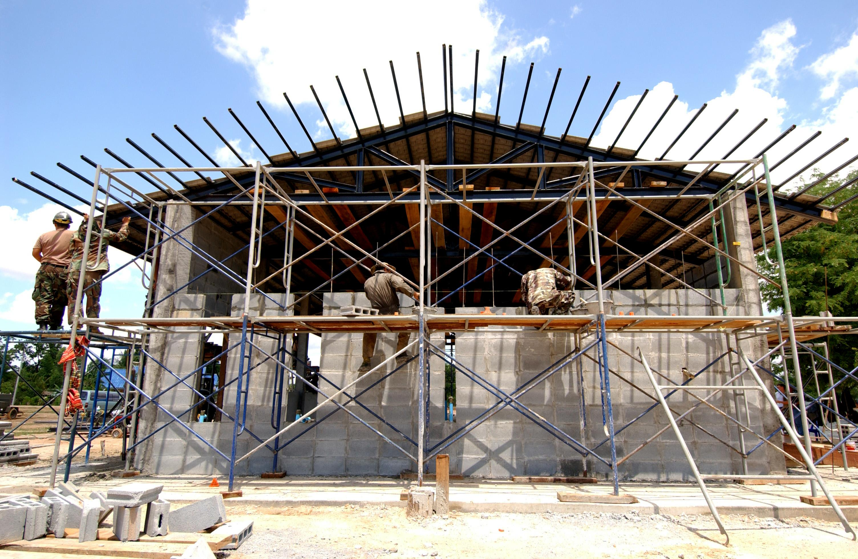 Ban Poon Suk, Thailand (May 10, 2004) – U.S. Navy Seabees assigned to Naval Mobile Construction Battalion Five (NMCB-5), Port Hueneme, Calif. and Thailand Army soldiers work together to build a community center in Ban Poon Suk, Thailand. This sight is one of six construction sights being built for the Thai community as part of Cobra Gold 2004. Cobra Gold 2004 is a joint-combined U.S.-Thai military exercise designed to ensure regional peace through the U.S. Pacific Command’s strategy of cooperative engagement. The exercise includes land and air, combined naval, amphibious and special operations as well as combined U.S.-Thai medical civil affairs projects throughout the Kingdom. U.S. Air Force photo by Staff Sgt. JoAnn S. Makinano (RELEASED)